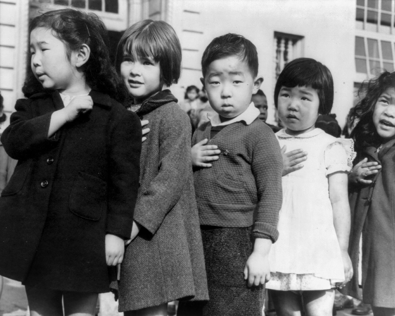 First-graders, some of Japanese ancestry, at the Weill public school, San Francisco, Calif., pledging allegiance to the United States flag. The evacuees of Japanese ancestry will be housed in War relocation authority centers for the duration of the war SUMMARY: Relocation of Japanese-Americans. Calif. SUBJECTS: World War, 1939-1945--Japanese Americans--California--San Francisco. MEDIUM: 1 photographic print.